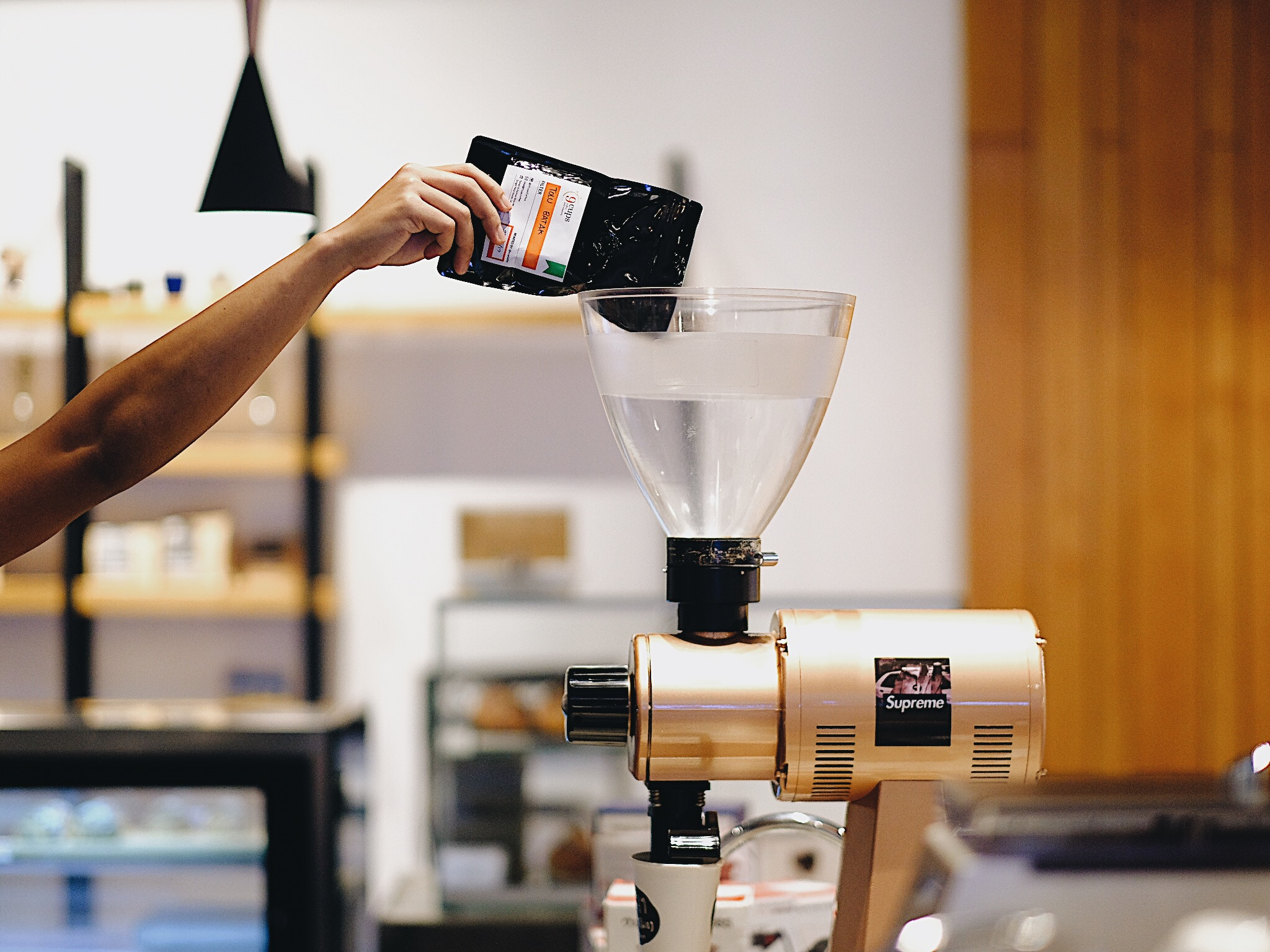 Barista putting the coffee inside grinder to make a shot of espresso